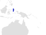 Map of Indonesia with the range of the Halmahera epaulette shark highlighted in blue